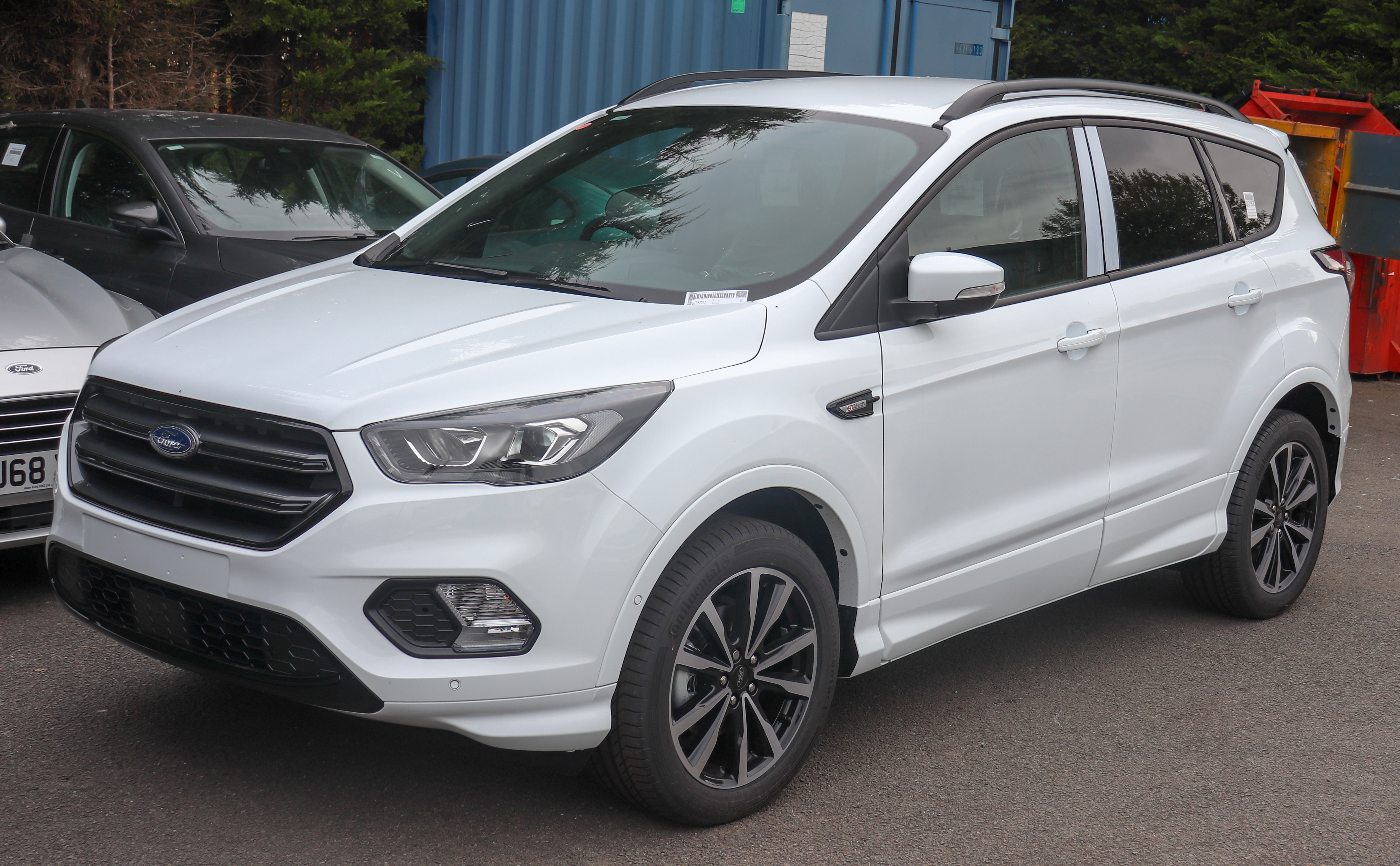 2018 Ford Kuga ST-Line Front Taken in Leamington Spa